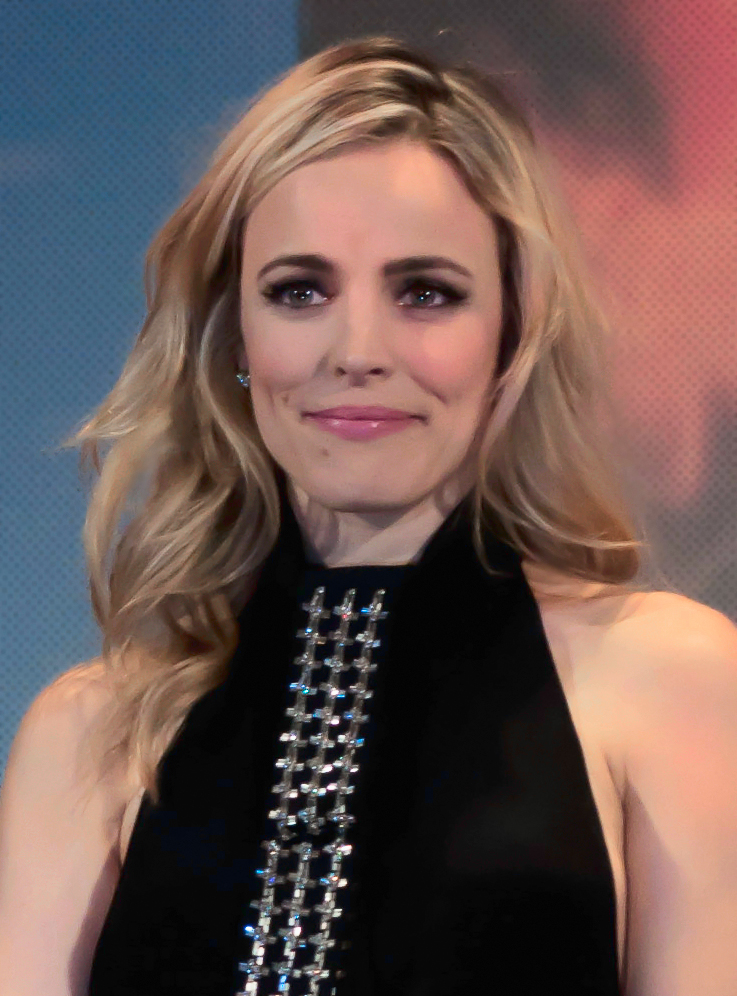 Rachel McAdams at the 2012 Toronto Film Festival during the North American premiere of Passion.